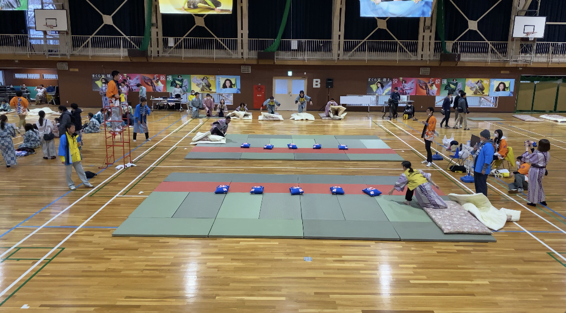 Japanese pillow fight